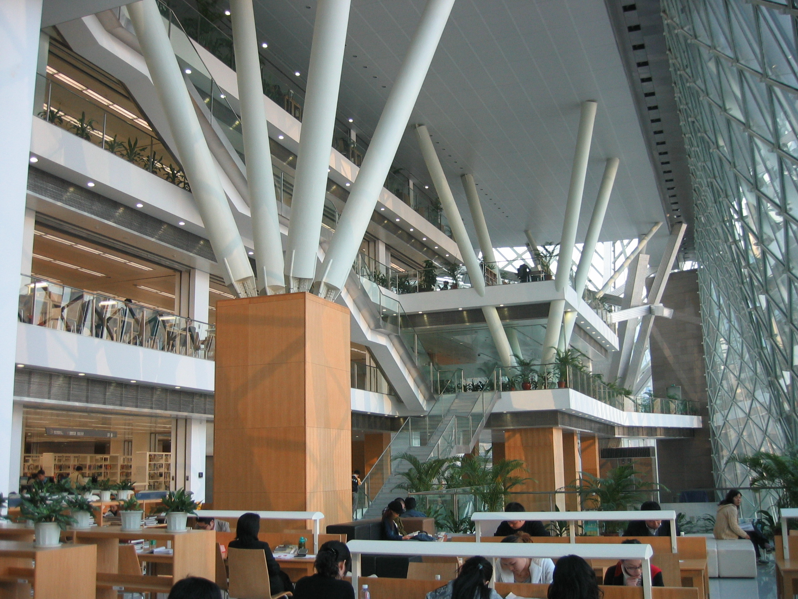 Shenzhen Library Interoir 深圳圖書館